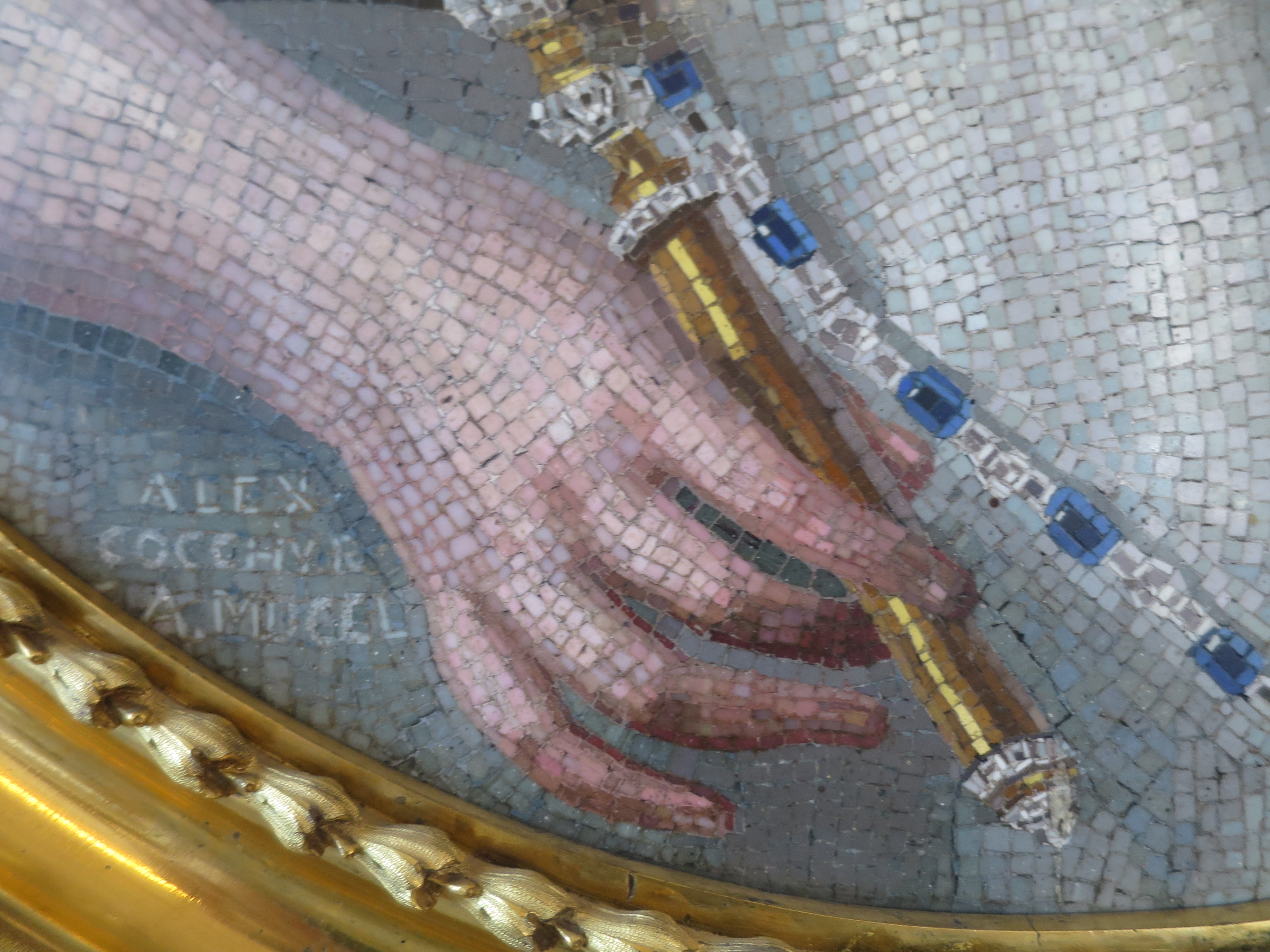 Detail of micromosaic portrait of Empress Elizabeth Petrovna by Luigi Alessandro and Valadier Cocchi, 1750, The Hermitage